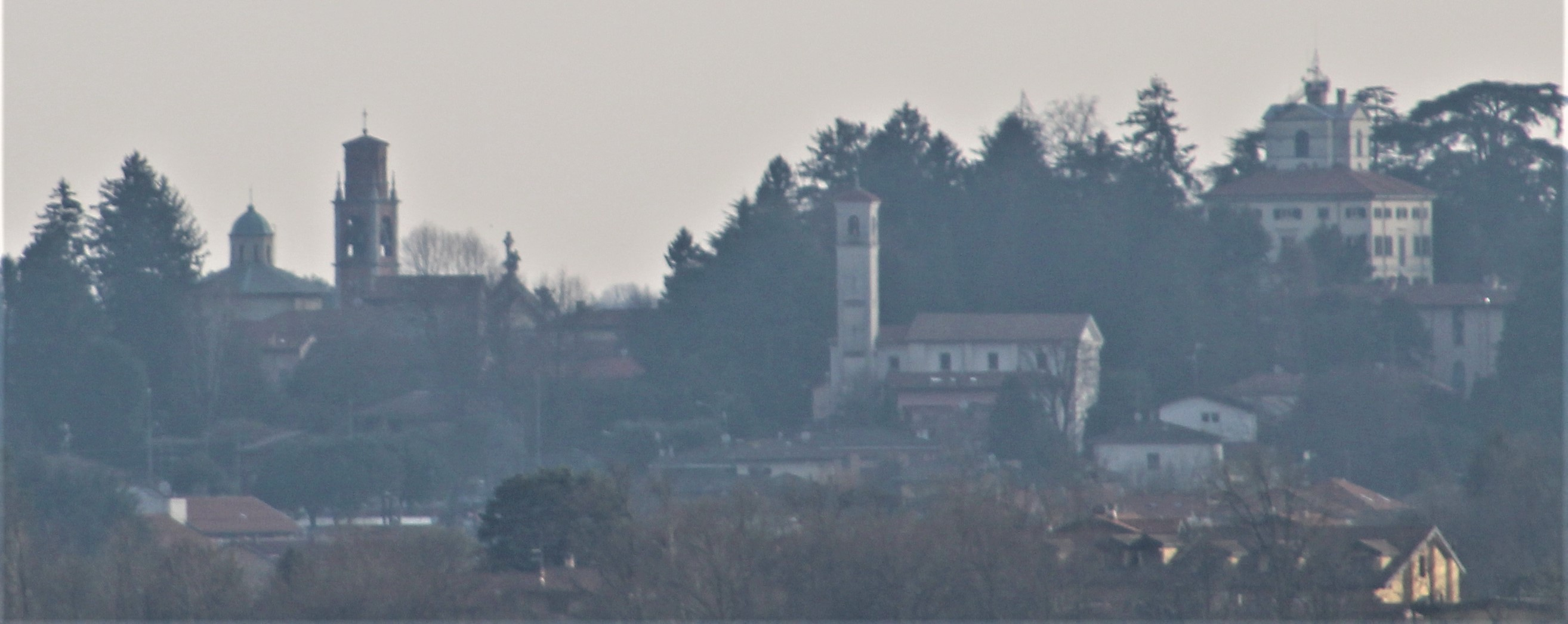 San Gerardo church in Olgiate Comasco - view from Colle San Maffeo in Rodero. In foreground: to the left, the bell-tower of the parish church of SS. Ippolito & Cassiano; to the right: Villa Camilla